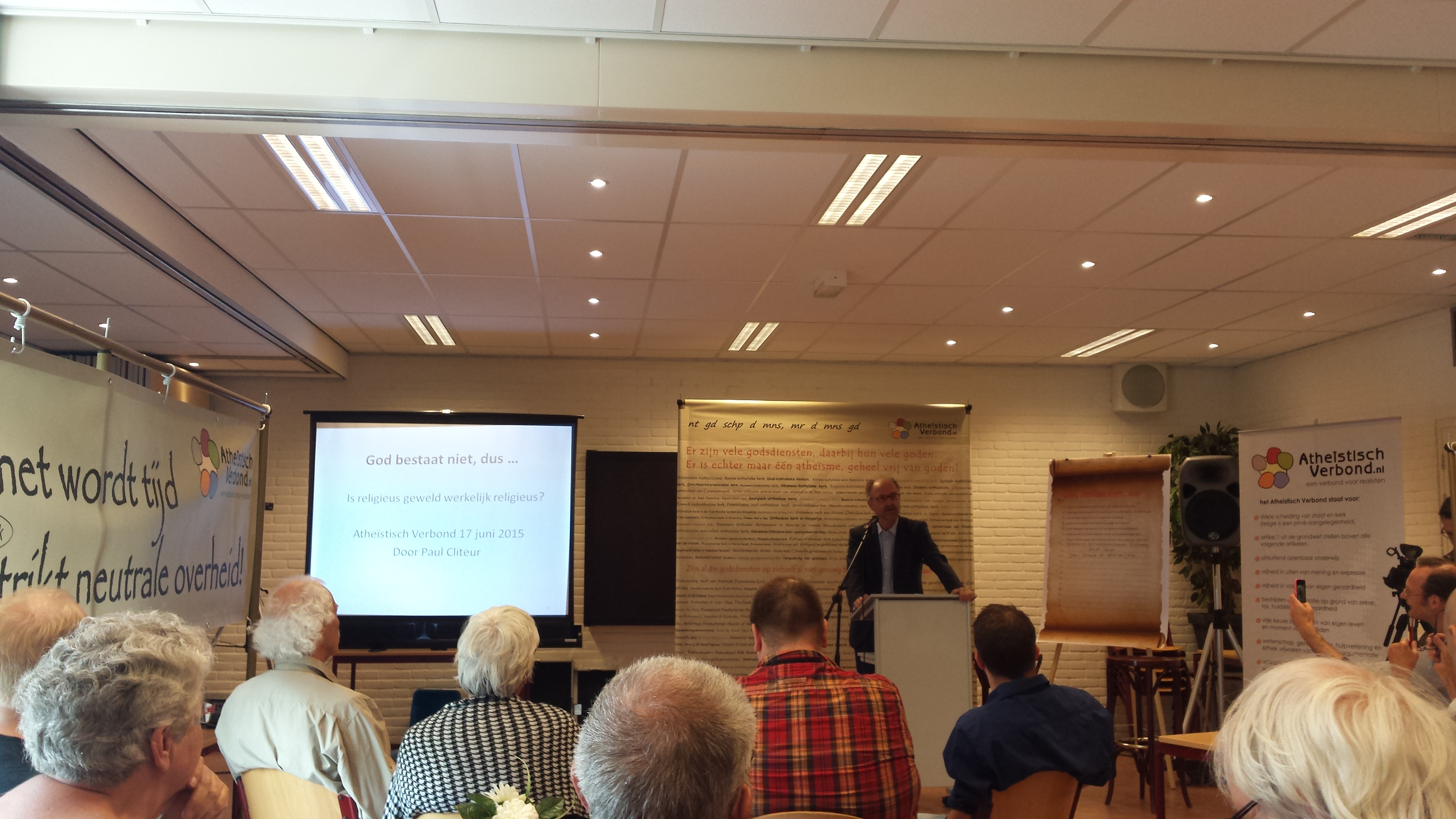 Paul Cliteur lecturing on religious violence.